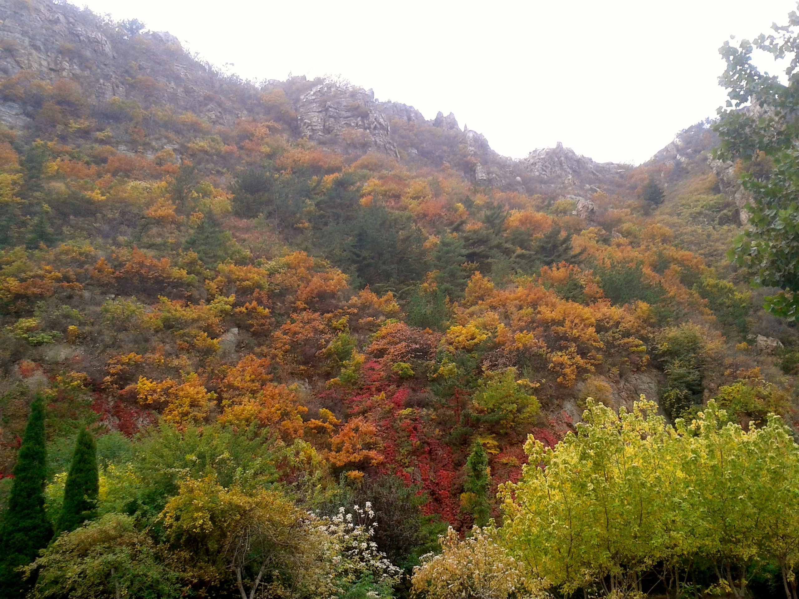 Autumn mountain foliage in Dalian, China